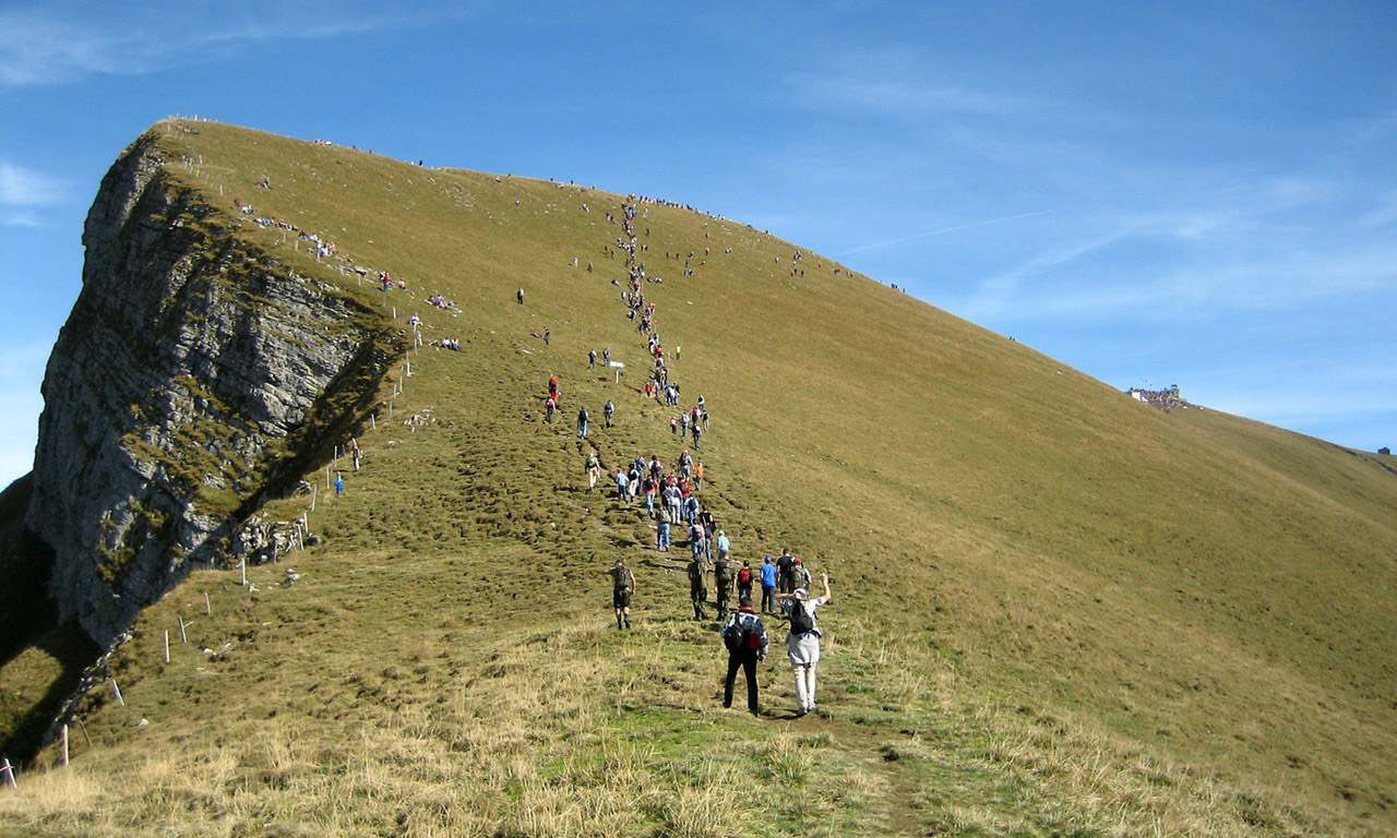 Thousands of spectators climb towards the summit of Tschingel (2243 m / 7359 ft AMSL), Command post and main spectators zone on the right horizonAxalp Shooting Demo 2006, Axalp-Ebenfluh Bombing and Gunnery Range, Switzerland